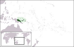 Locator map for the Territory of New-Guinea